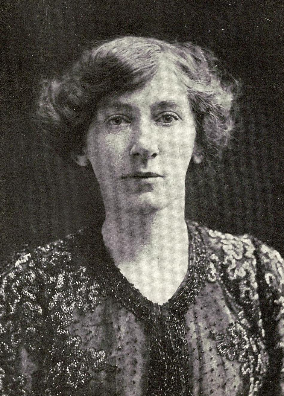 Member of the National Executive Committee of the Women's Freedom League. TWL.2002.51